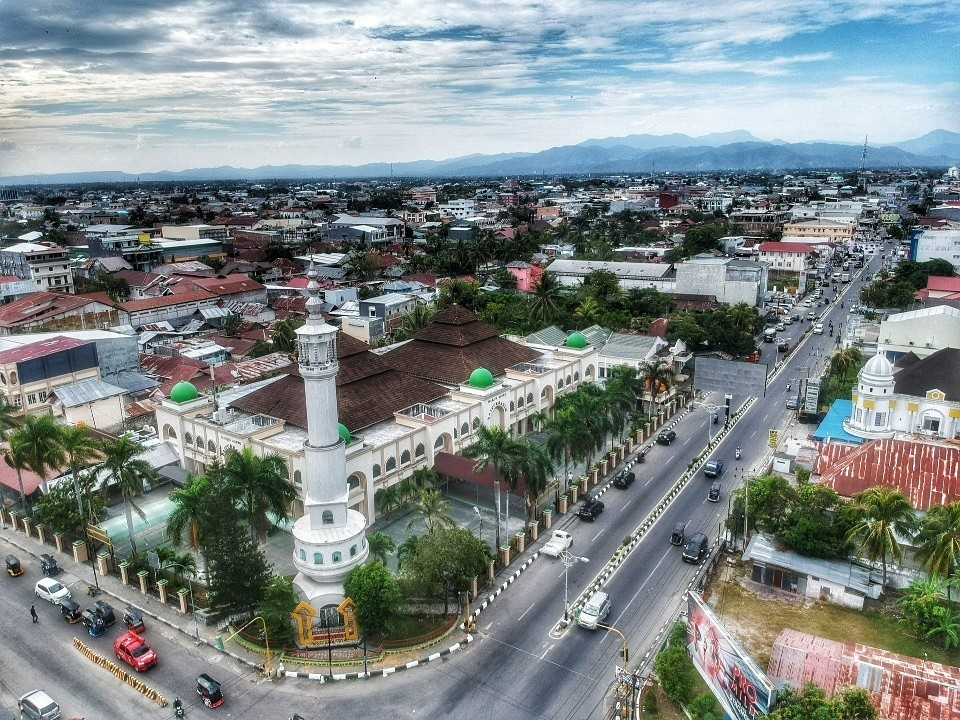 Grand Mosque of Baiturrahim in the city of Gorontalo, Sulawesi, Indonesia